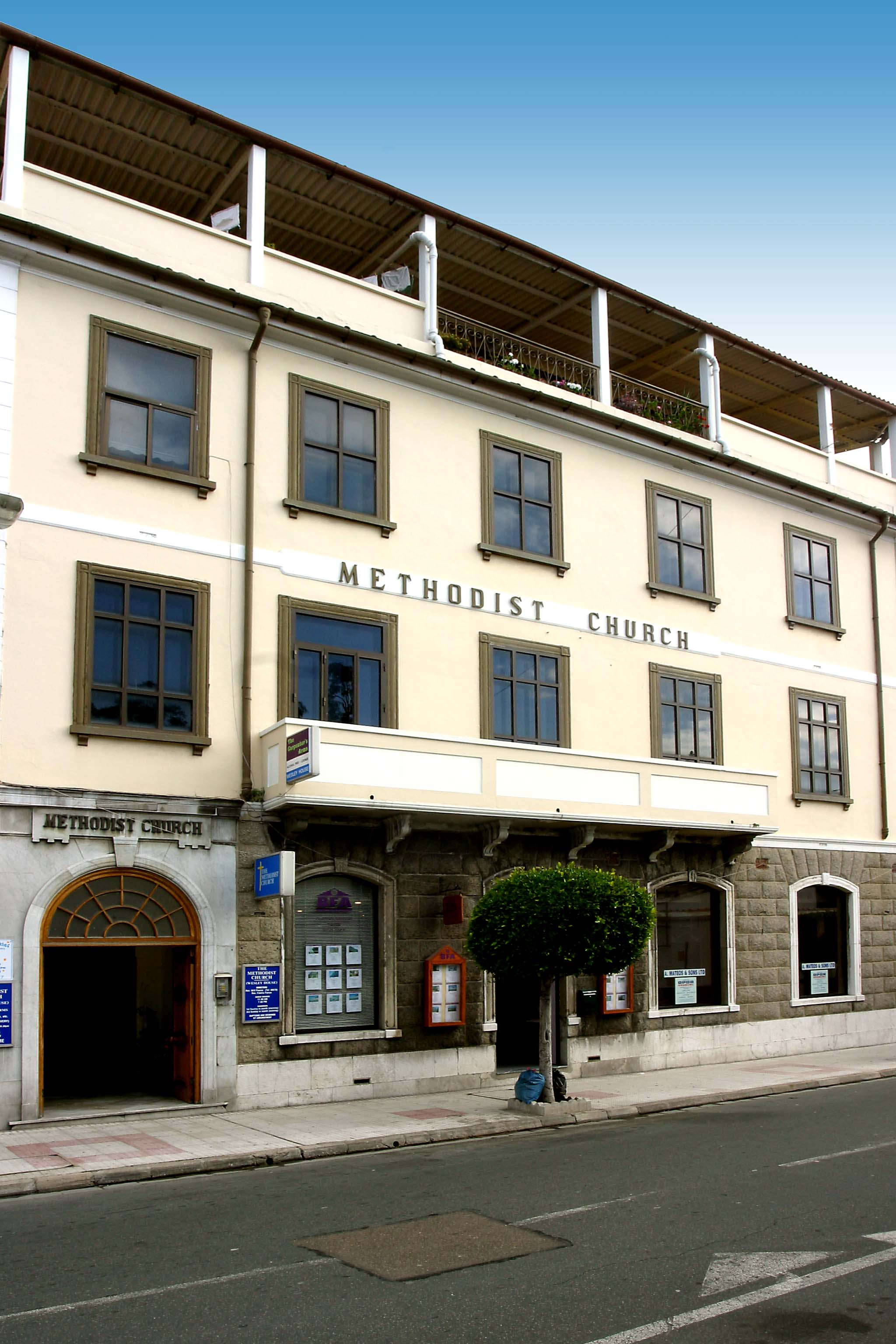 This picture is owned by me and is also located at